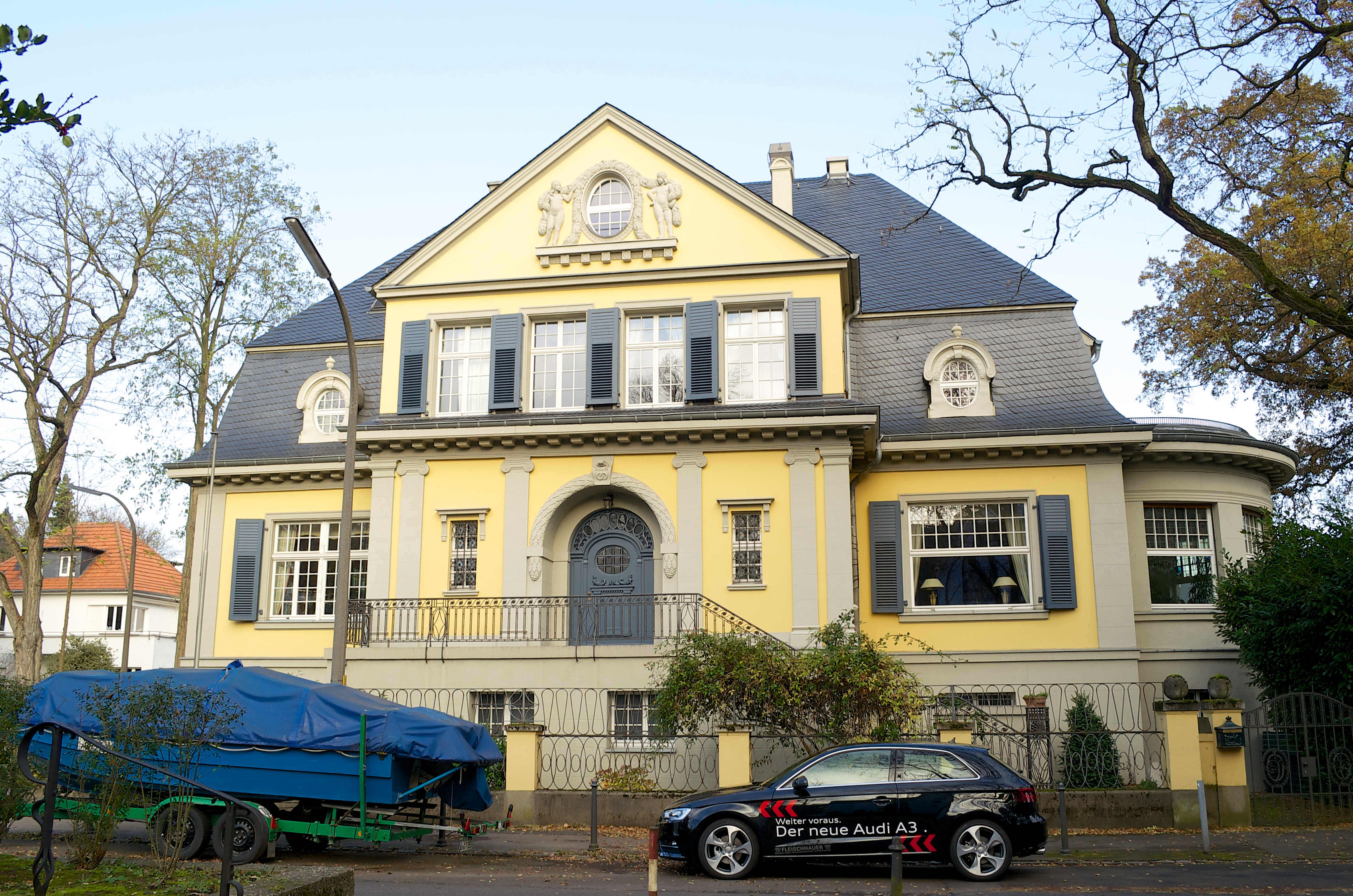 Cultural heritage monument in Bad Godesberg